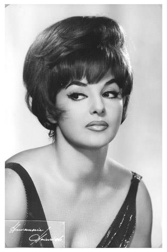 Inés Moreno- actriz